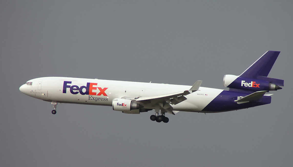 Federal Express McDonnell Douglas MD-11F (N607FE) in Frankfurt (EDDF)